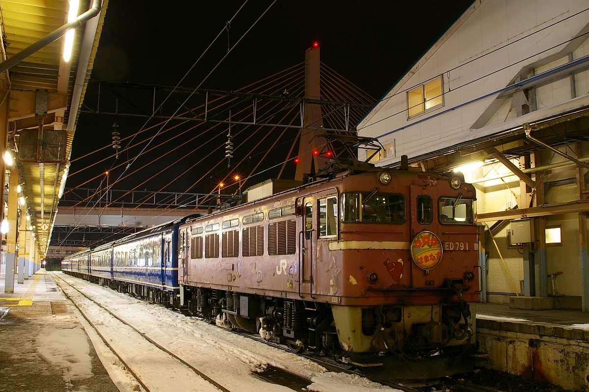 JR Hokkaido Class ED79 electric locomotive number ED79 1 on a Hamanasu overnight express service at Aomori Station